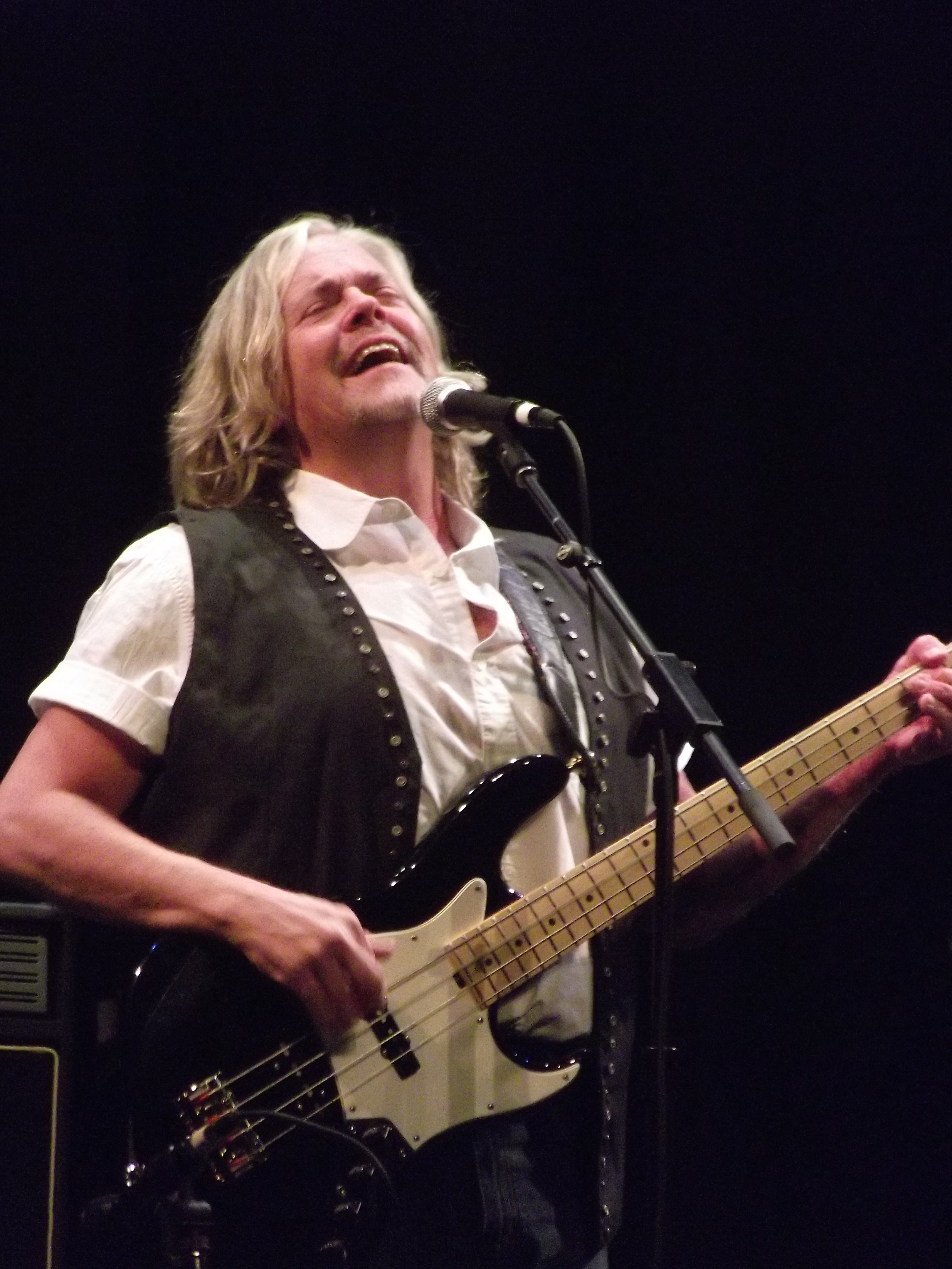 John Cowan at Piedmont Land Conservancy Benefit, Greensboro, NC 10/19/2012